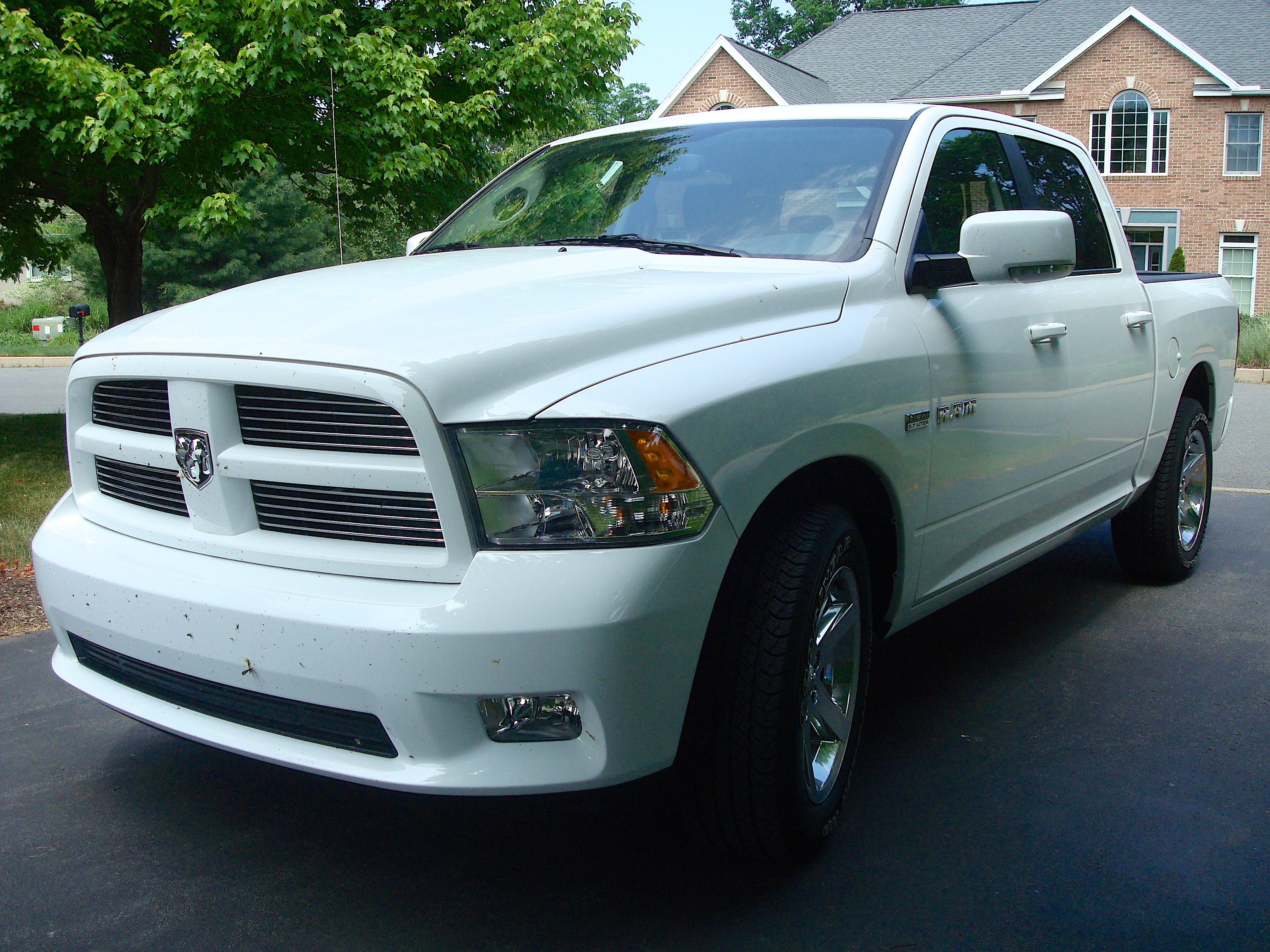 White truck